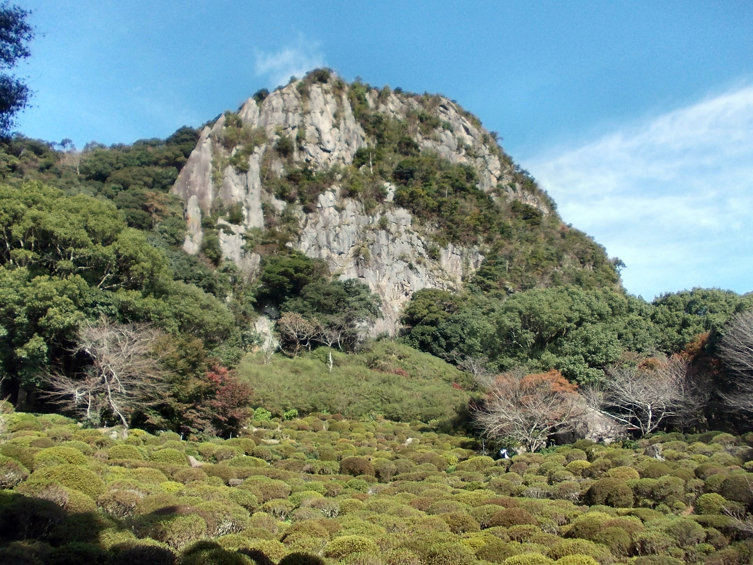 The Former Nabeshima Family Villa Gardens, aka. Mifuneyama-rakuen, Takeo, Saga, Japan